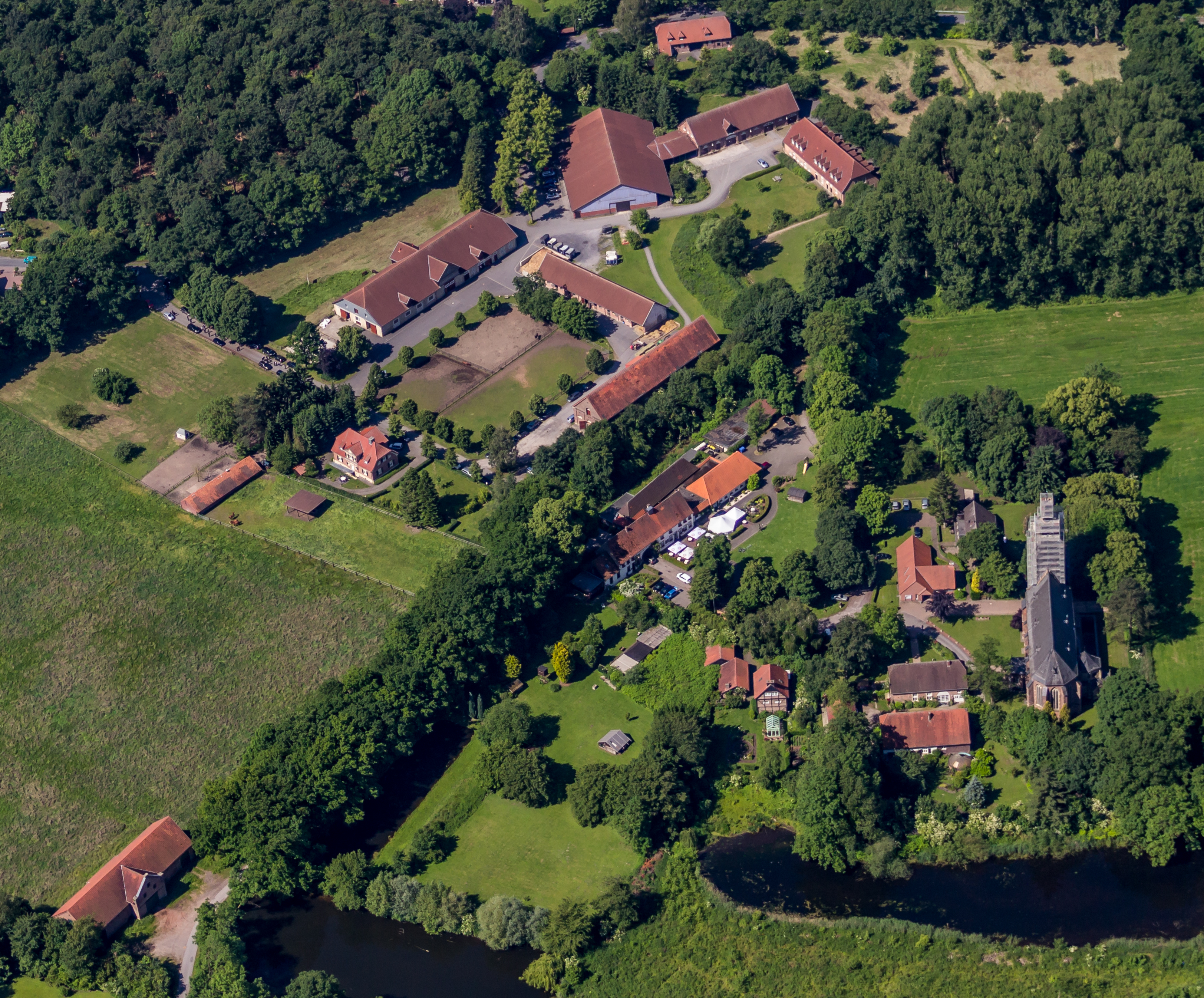 Karthaus in Weddern, Kirchspiel, Dülmen, North Rhine-Westphalia, Germany